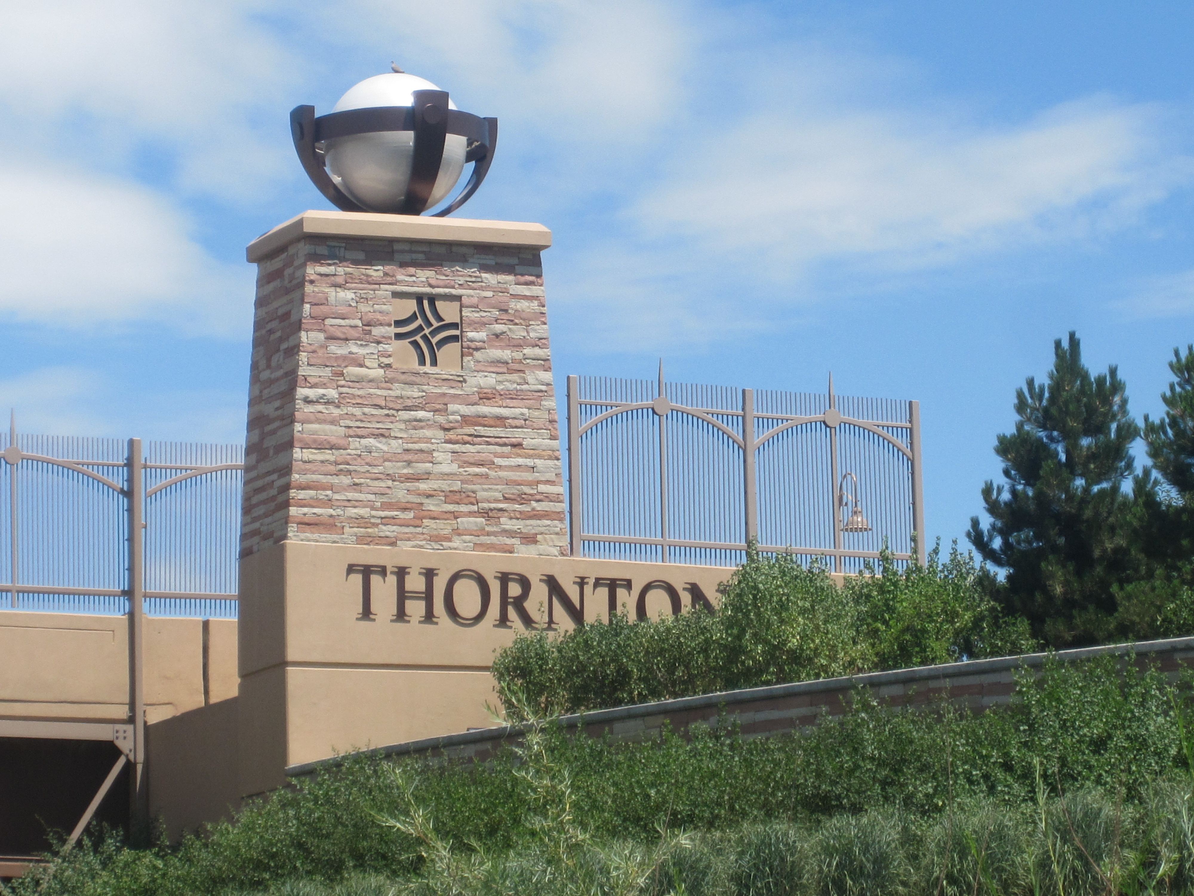 I took photo with Canon camera in Thornton, CO.